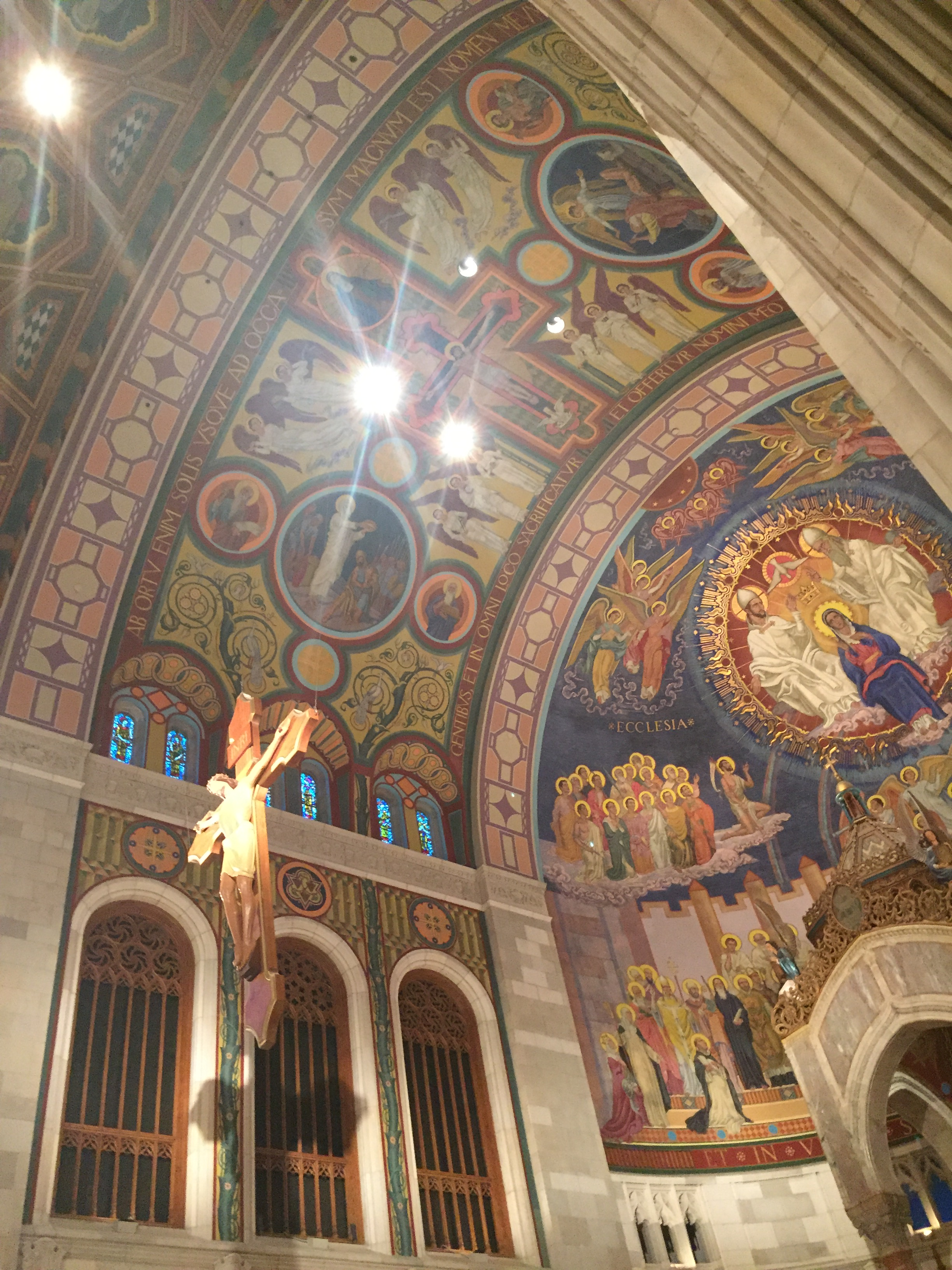 View of the Mosaic Above the apse and sanctuary and altar.